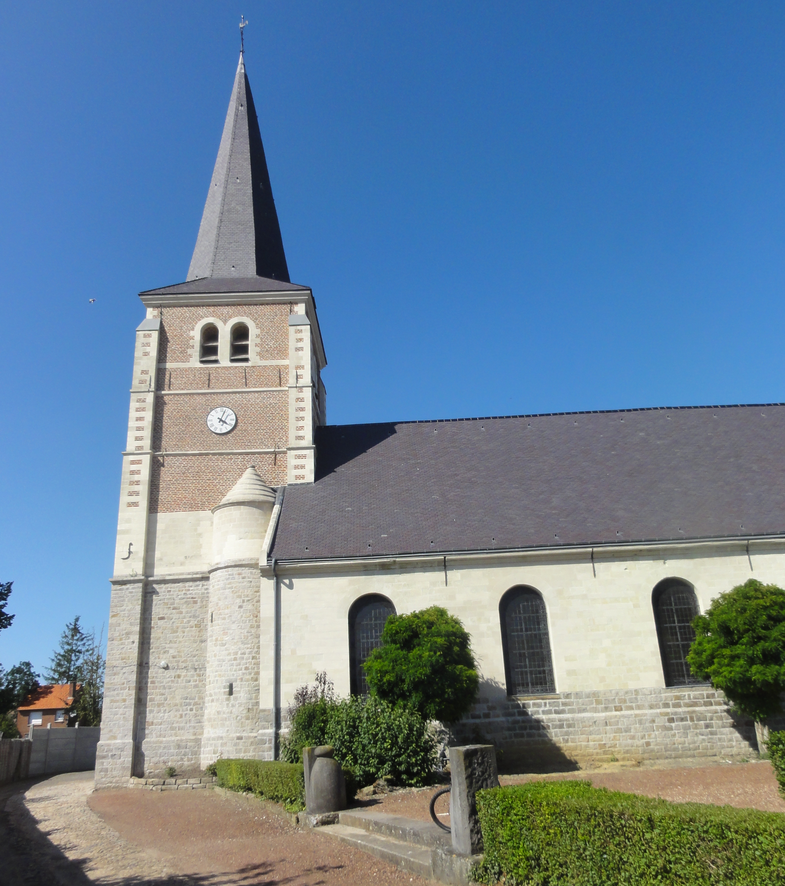 Depicted place: Q41784822